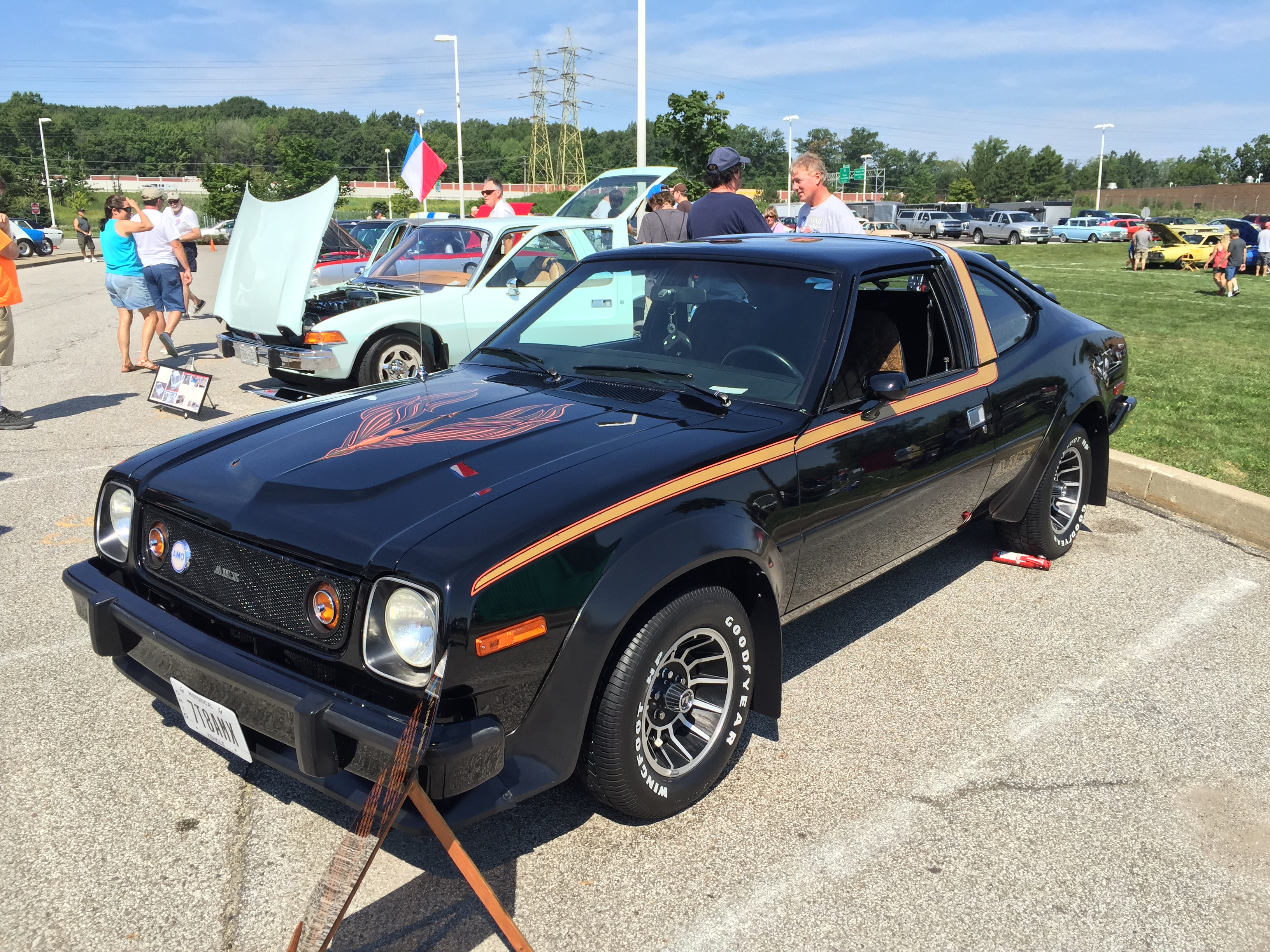 1978 AMC AMX, a compact sports coupe built by American Motors Corporation. Based on the Concord hatchback model, this design version of the performance AMX was available only for the 1978 model year. The car did not have Concord badges or identification. The AMX featured the front fascia with single round headlights, a flush grille, round amber parking lights, and a "power bulge" hood from the AMC Gremlin. The 1978 AMX colors were limited to white, red, yellow, silver metallic, or a special version in "Classic Black." This car features the black paint, which also included gold body side stripes that continued up and over the roof band, as well as gold paint accents for the slot-styled wheels. This car has been equipped with AMC's 14x7 "Turbocast II" wheels that became available with the 1979 models. This car has the optional carryover Hornet AMX decal the rear deck and hood. Picture taken at the American Motors Owners Association (AMO) annual convention that was held July 2015 near Cleveland, Ohio.